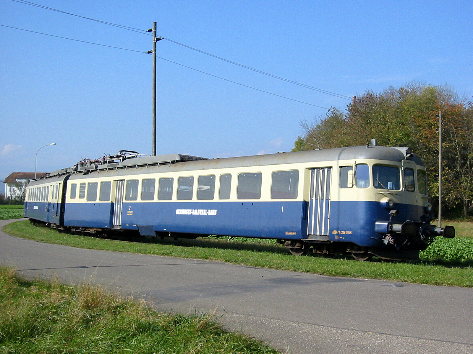 Two-car trainset ABDe 4/8 no. 244 of the OeBB (ex 744 of the BLS); Kallnach, Berne, Switzerland